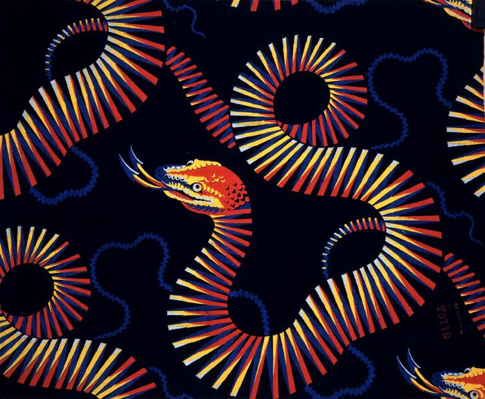 Desciption: Patented textile pattern by Christopher Dresser, one of Victorian Britain's leading industrial designers. This design was intended for dress fabric for the African market. Date: August 1887 Our Catalogue Reference: EXT 9/104 (79119) This image is from the collections of The National Archives. Feel free to share it within the spirit of the Commons. For high quality reproductions of any item from our collection please contact our image library.